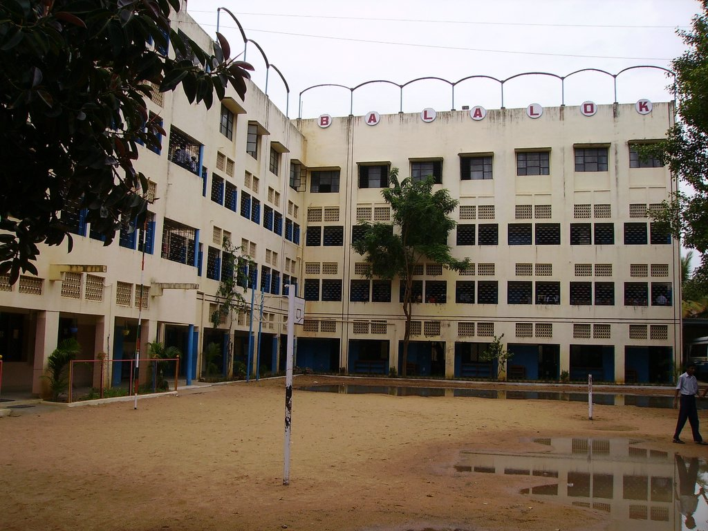 Photograph of the classrooms of Balalok Matriculation Higher Secondary School, Virugambakkam